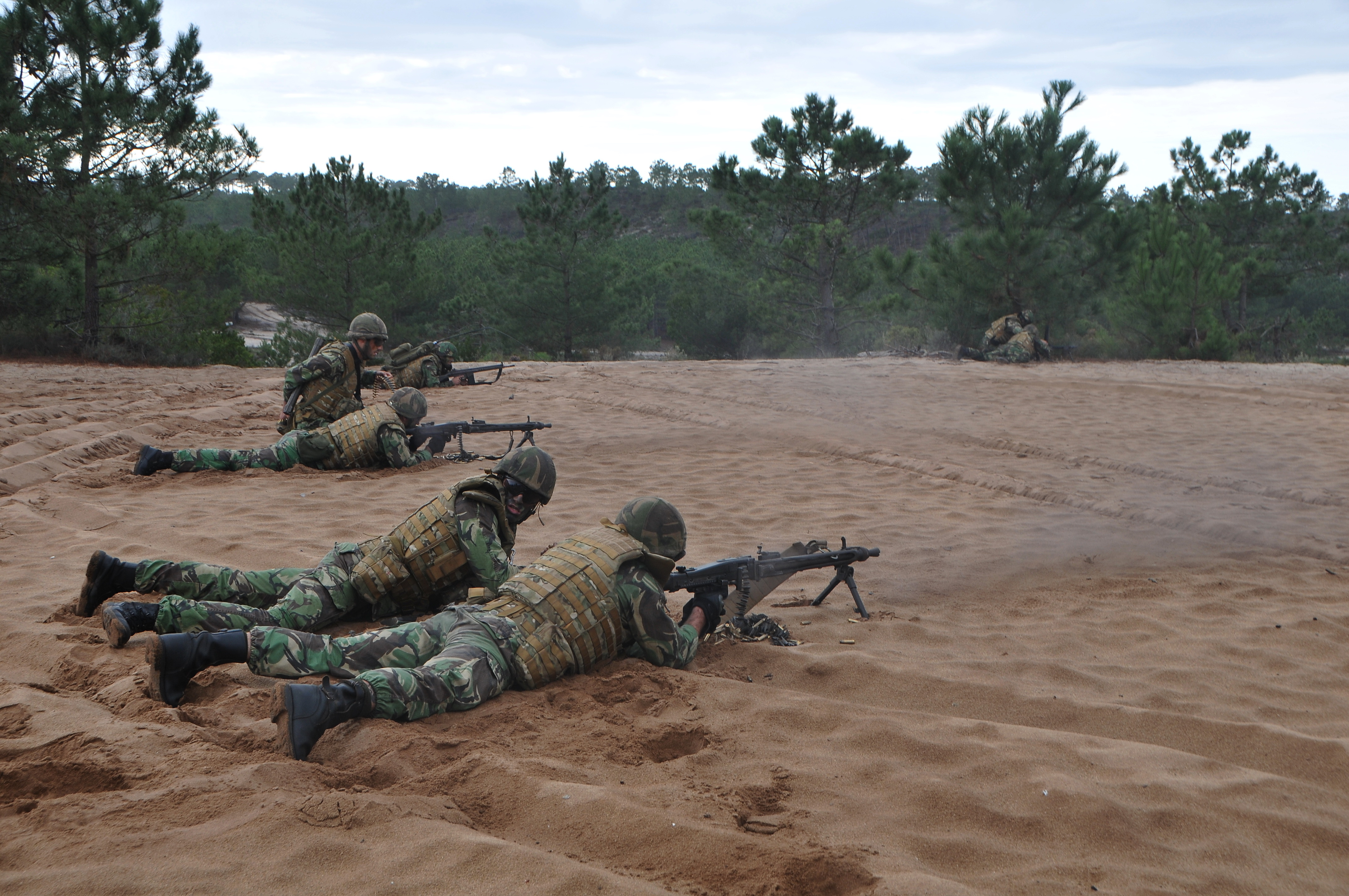 Members of the MG42 machine gun team of the Portuguese Marines during a heli assault with live fire in Pinheiro da Cruz, on Trident Juncture 2015. Trident Juncture is a NATO led exercise designed to certify NATO response Forces and develop interoperability among participating NATO and partner nations. NATO photo by Horta Pereira